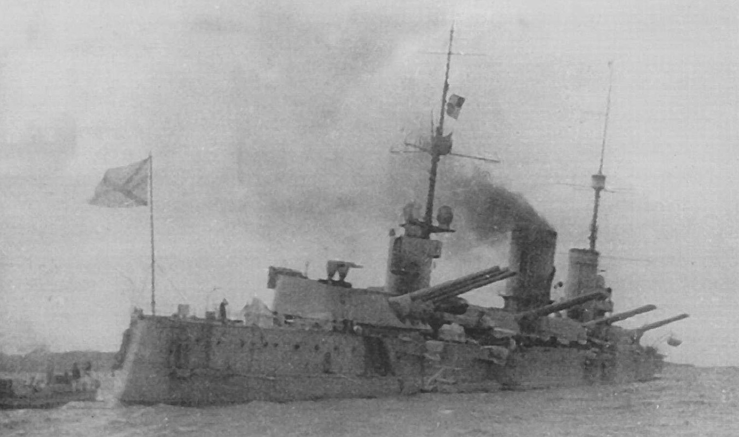 Imperial Russian Navy battleship Petropavlovsk